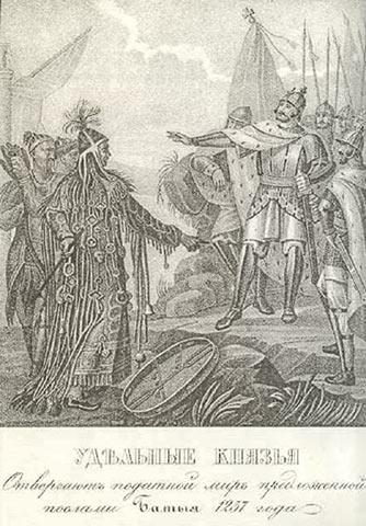 Rejection of the Tatars’ Peace Proposal